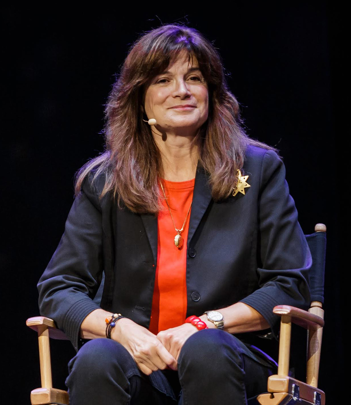 Carolyn Porco on stage during Star Talk Live in 2016.